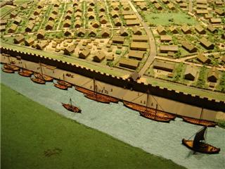 Århus viking town